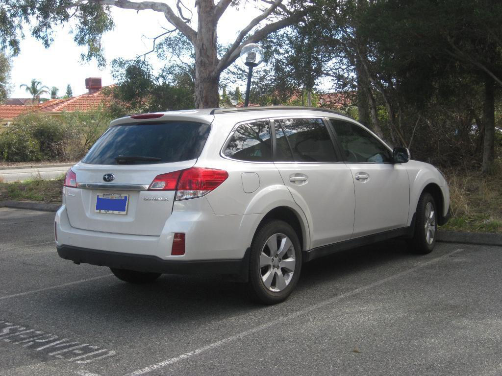 2010 Subaru Outback 2.5i (BR), photographed in Perth, Western Australia.